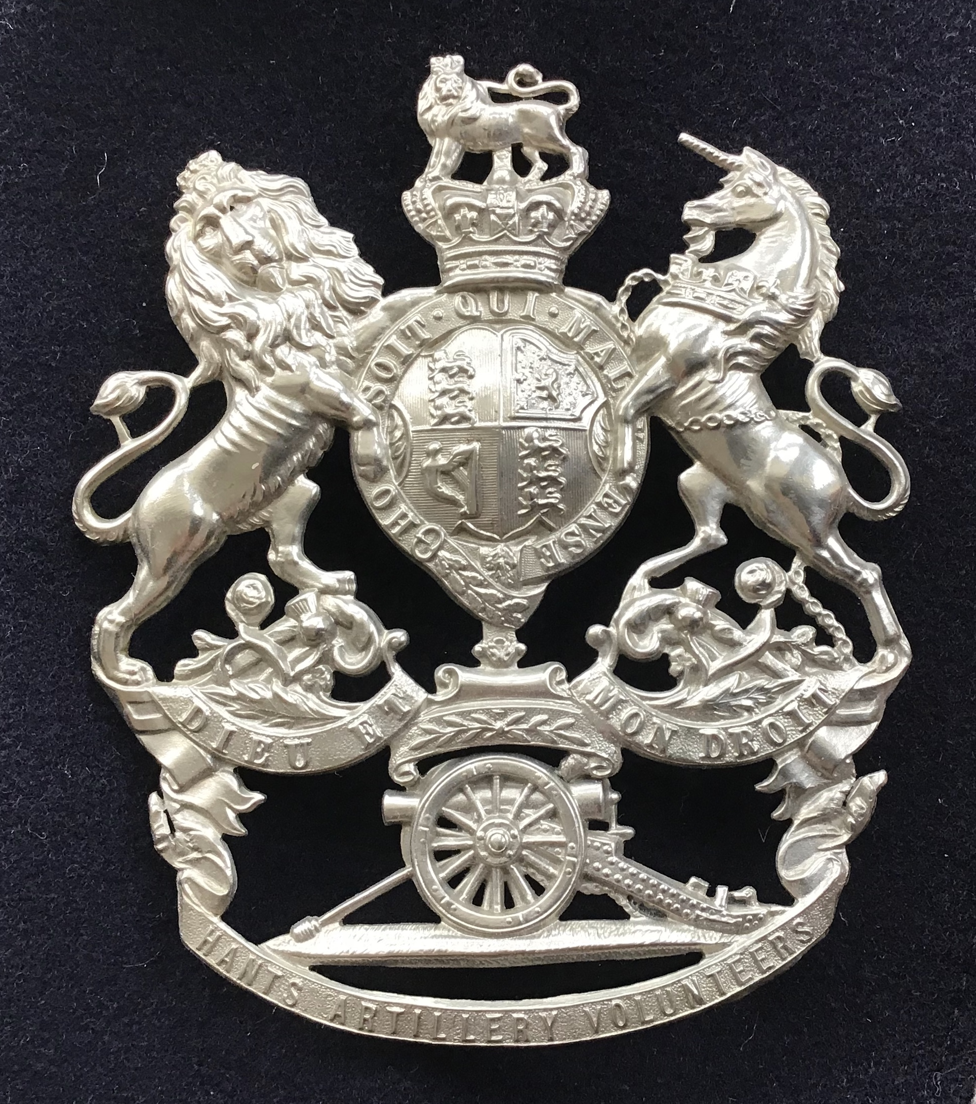 Other ranks helmet plate, Hampshire Artillery Volunteers, c1890